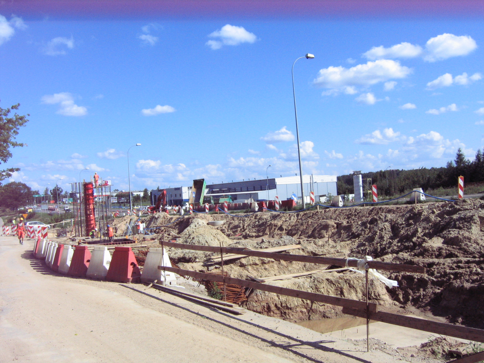 Construction of the expressway in Porosły near Bialystok